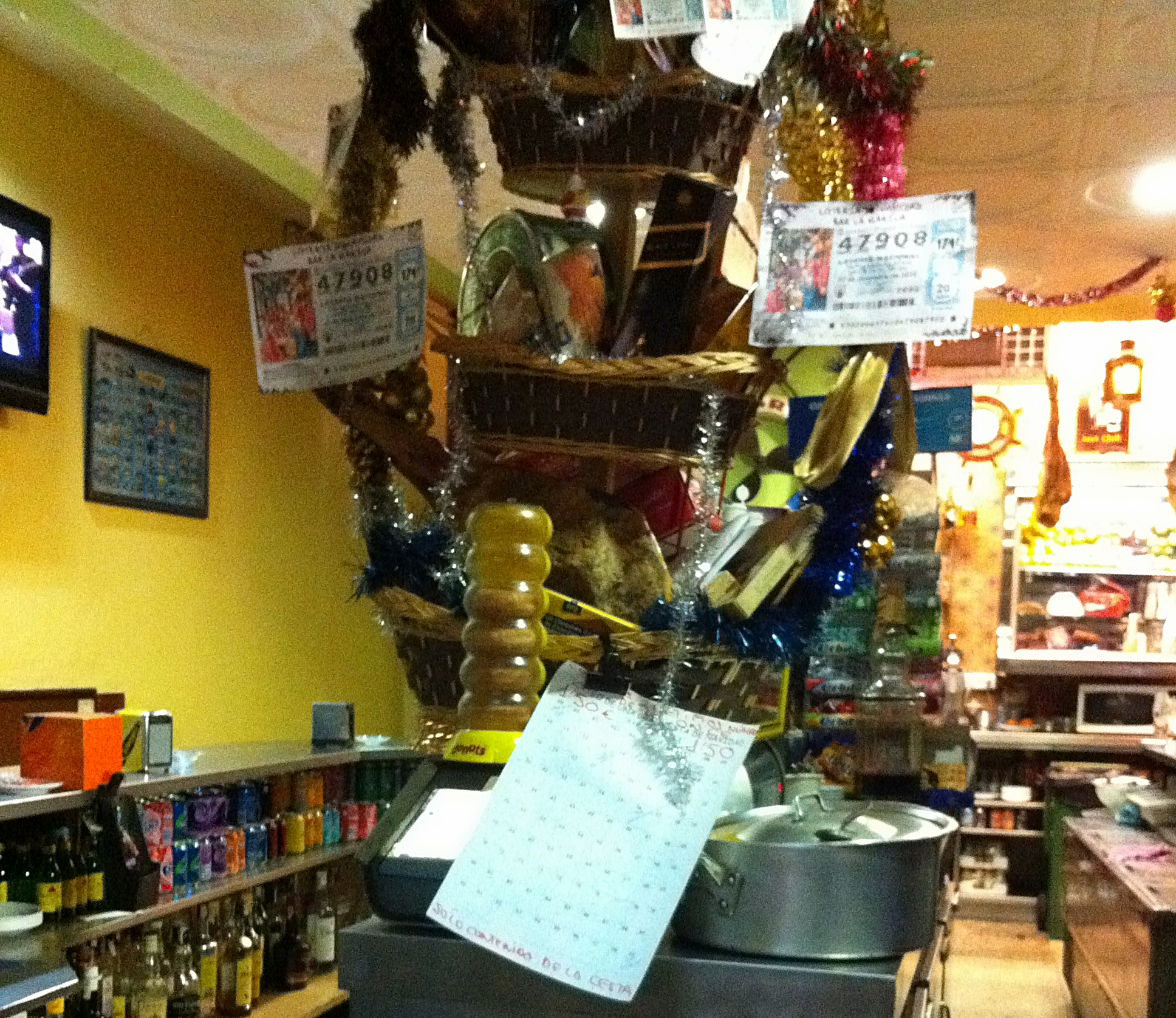 Spain, Canarys, Tenerife, Santa Cruz de Tenerife: bar with advertising and raffle tickets for the Christmas Lottery.